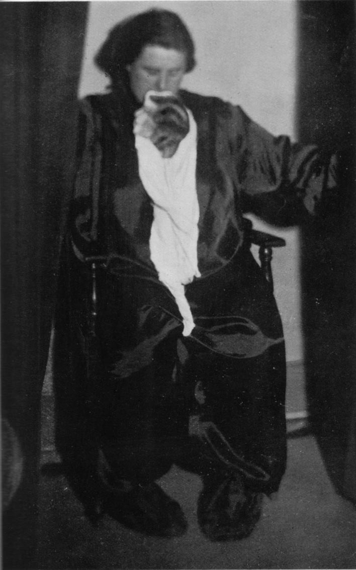 Cheesecloth of Helen Duncan taken by Harry Price